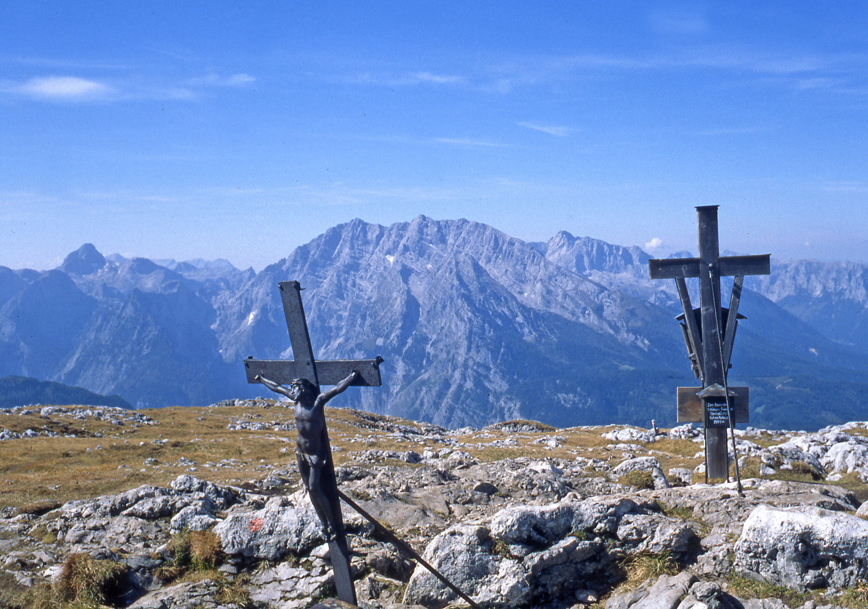 Schneibstein Crosses viewing to Watzmann